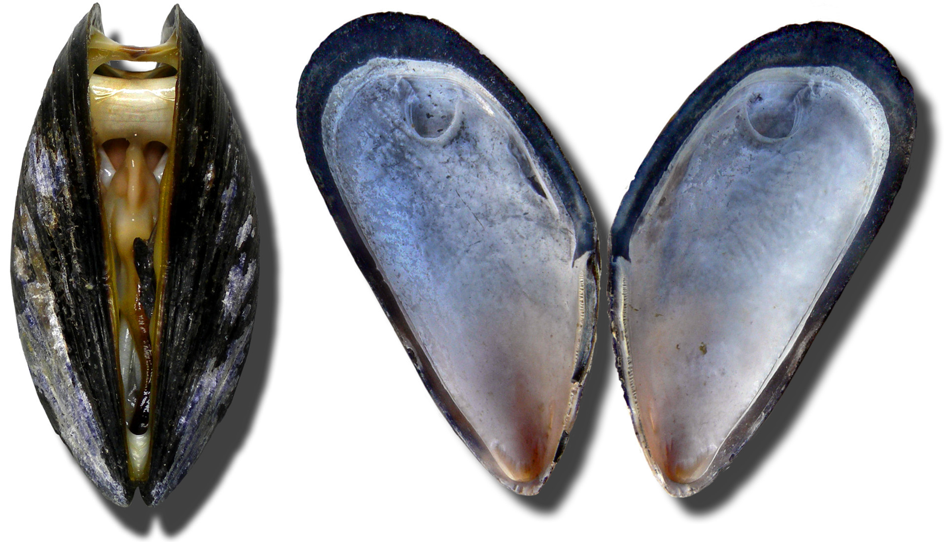 Moule, Miesmuscheln, mussel (anatomia and shell)